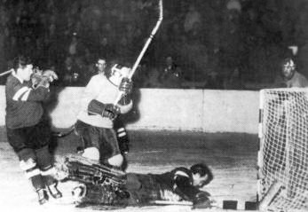 Sven Tumba scores in the match between Sweden and Germany in the olympic tournament 1952 in Norway. Sweden won the match by 7-3 and later finished third in the tournament.